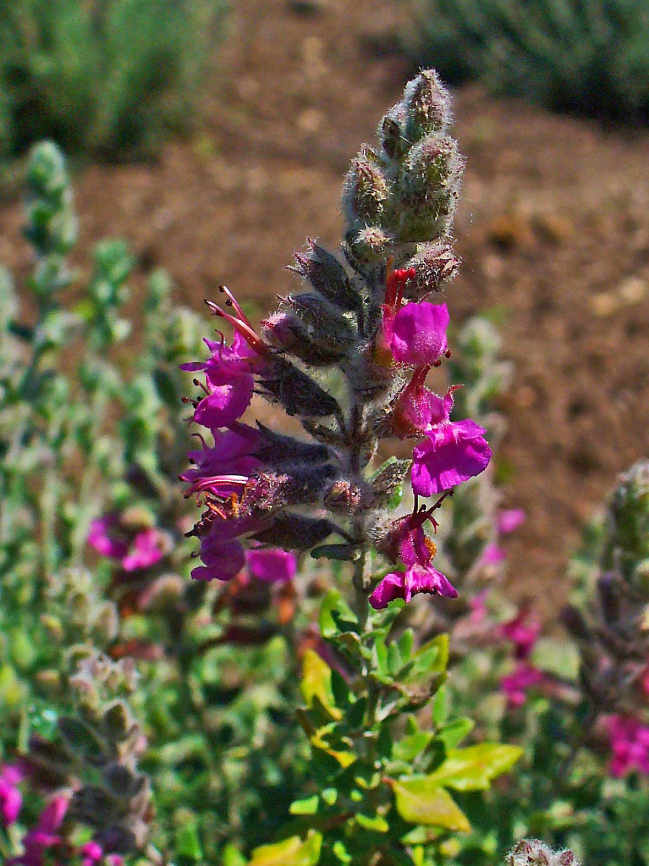 Teucrium marum, Lamiaceae, Cat Thyme, inflorescence.